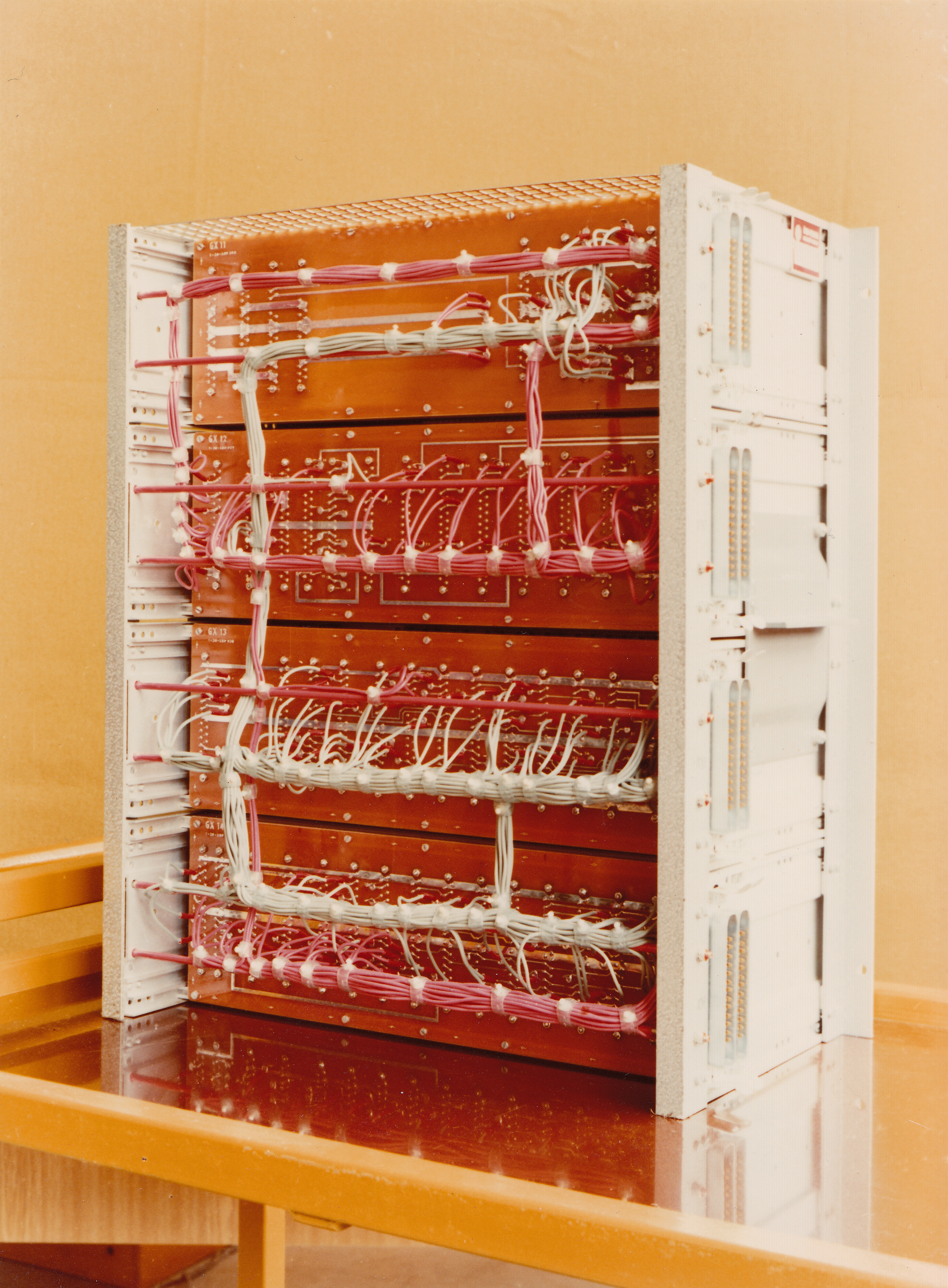 Wiring harness for analog controller